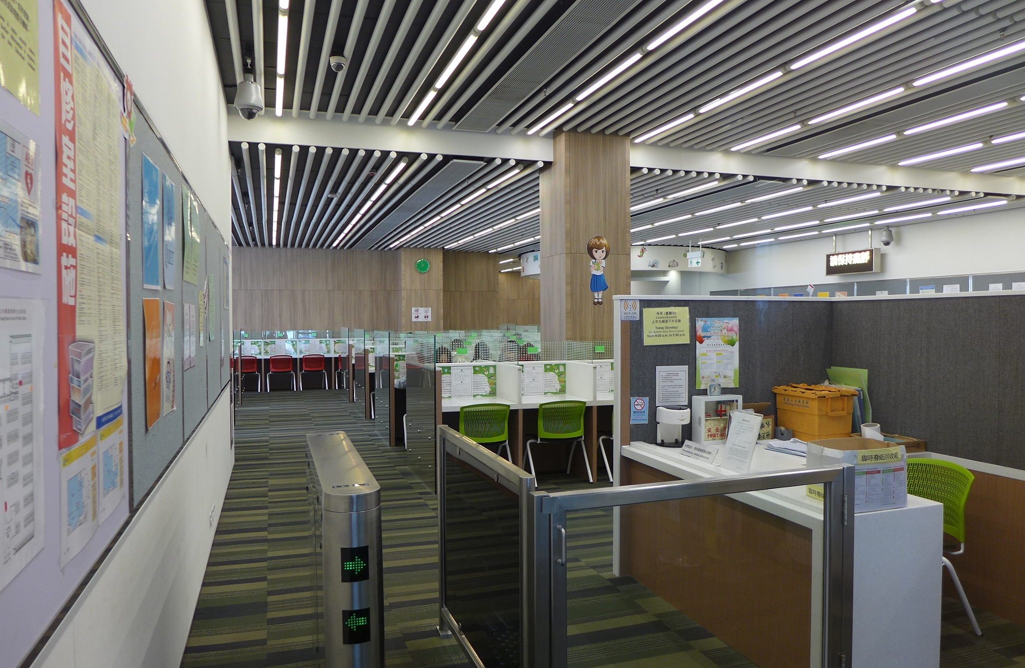 Lam Tin Public Library Students Study Room